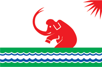 Srednekolymsk (Yakutia), flag